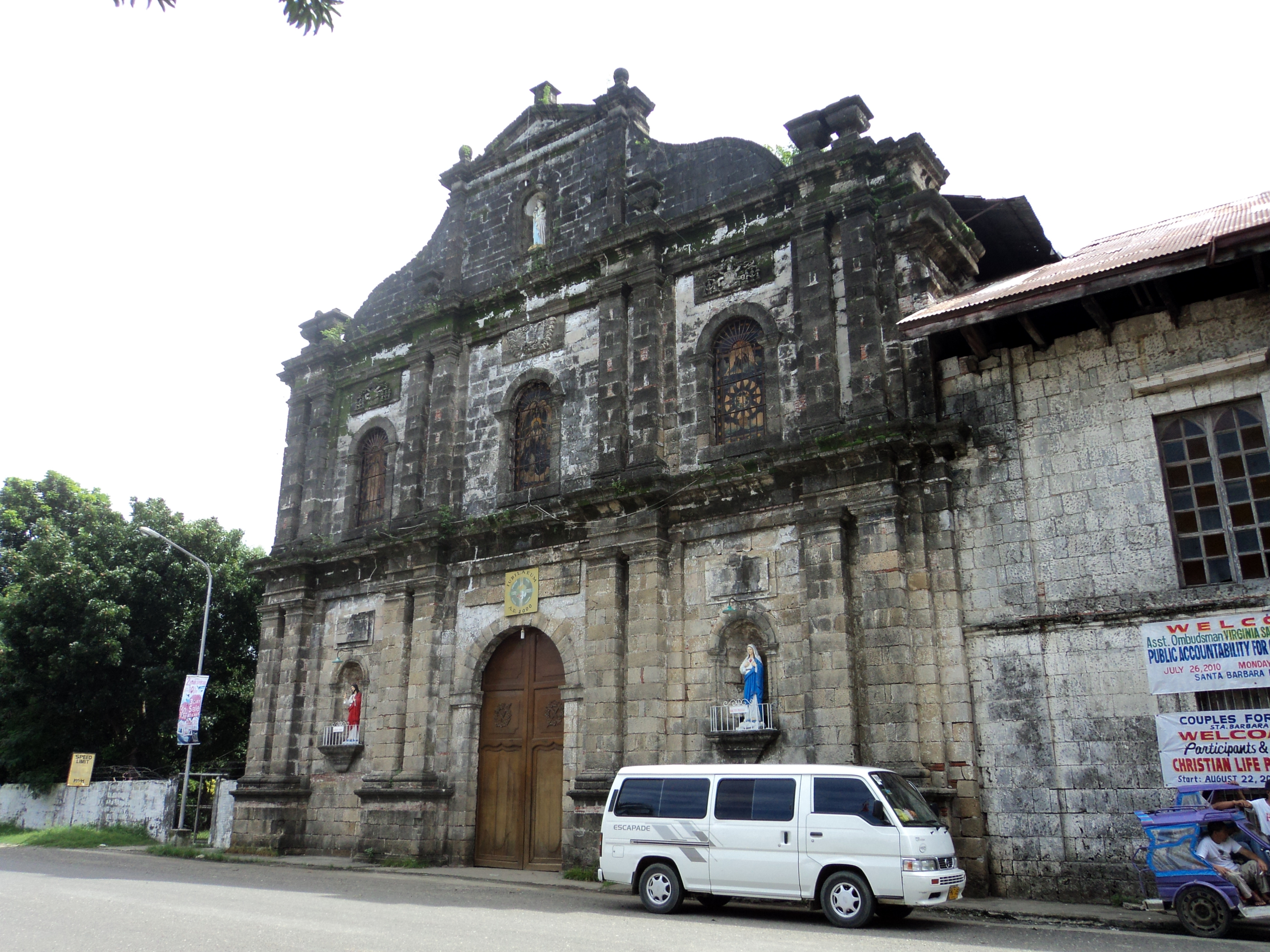 Sta Barbara Parish in Santa Barbara, Iloilo